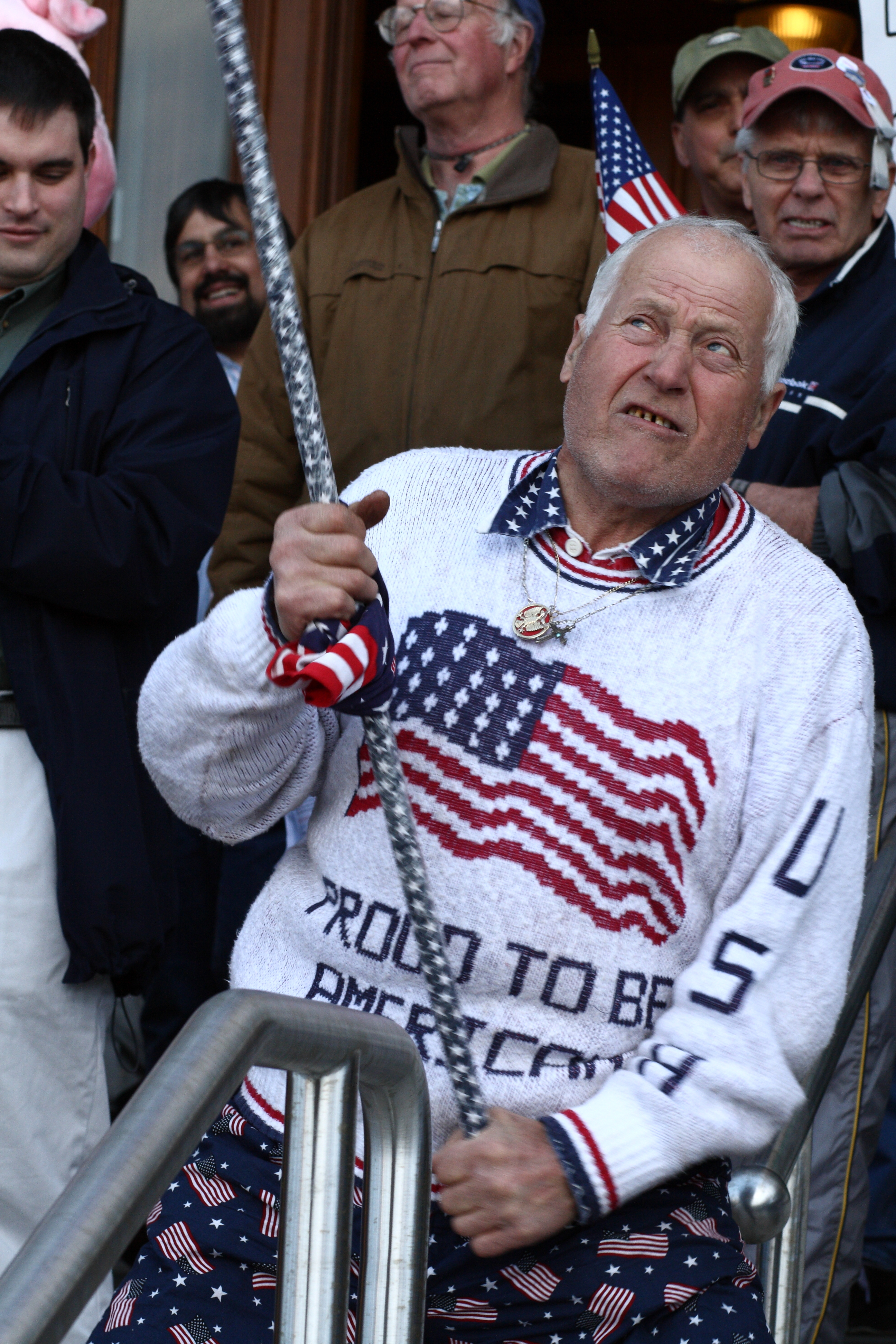 Tea Party protest at the Connecticut State Capitol in Hartford, Connecticut. The protest was scheduled for noon until 2pm local time; the timestamp of the photo is Coordinated Universal Time (UTC). Organizers reported that the police estimate of attendance was 5000 people. - OpenStreetMap(Info)